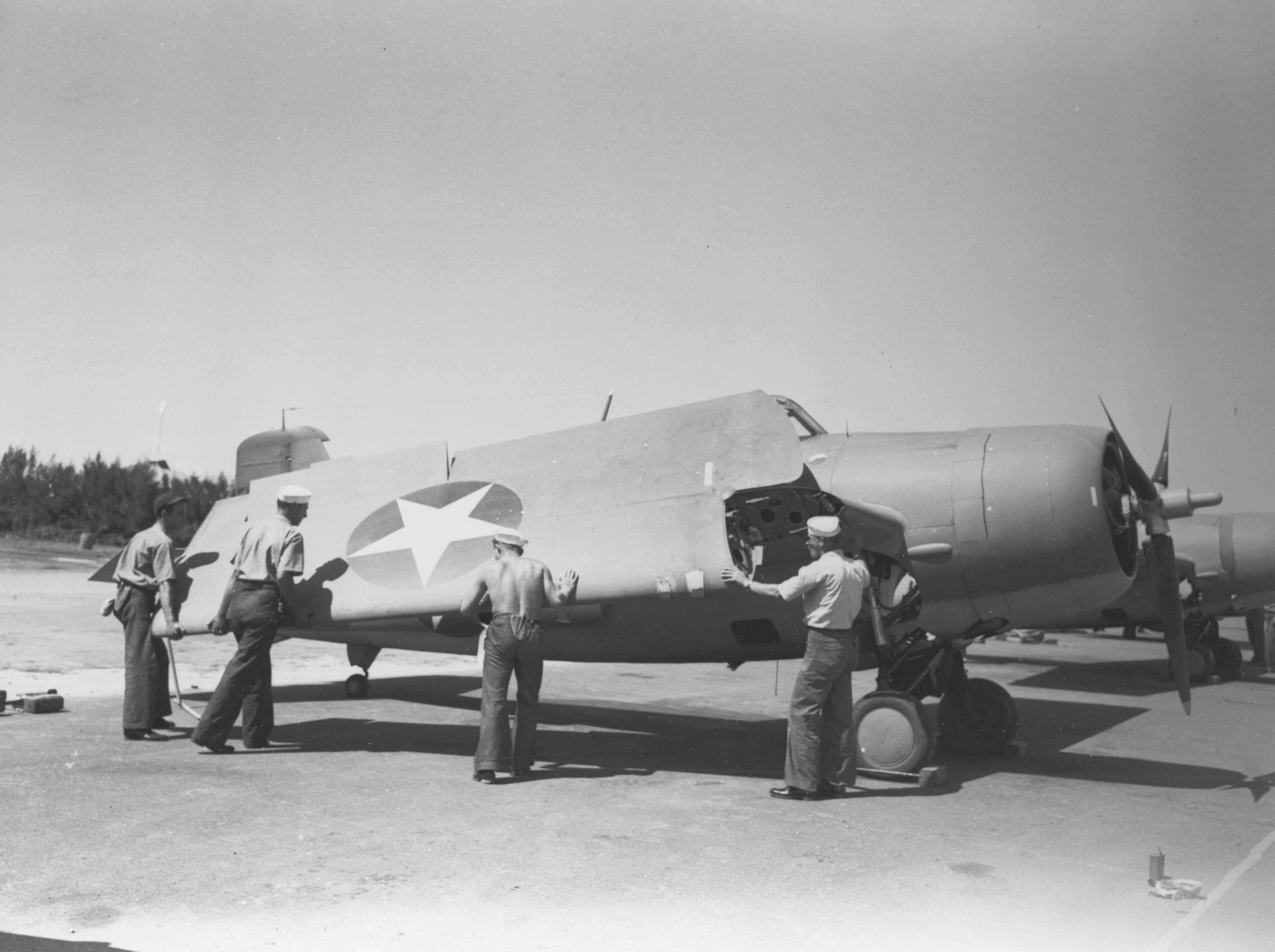 A U.S. Navy Grumman F4F-4 "Wildcat" fighter (BuNo 5171), of Fighting Squadron Three (VF-3) at Naval Air Station, Kaneohe, Oahu, on 29 May 1942, with ground crewmen folding the starboard wing. On 4 June 1942, in the Battle of Midway, this plane was flown by Lieutenant Commander John S. Thach, VF-3's Commanding Officer, during the afternoon combat air patrol defending USS Yorktown (CV-5), wherein Thach probably shot down Lieutenant Joichi Tomonaga, leader of the attacking Japanese torpedo planes.